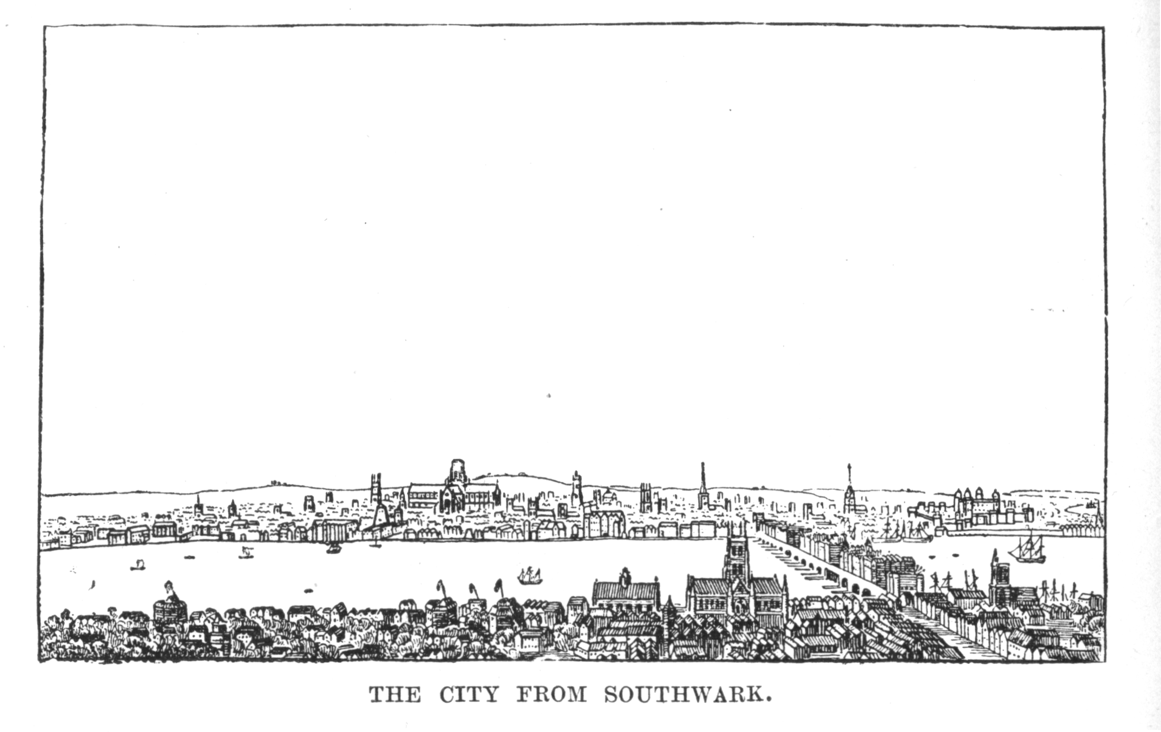 Drawing of the City of London as seen from Southwark in Elizabethan times. Published in Sir Walter Besant. 1894. The History of London. (2nd edition). London: Longmans, Green, and Co.